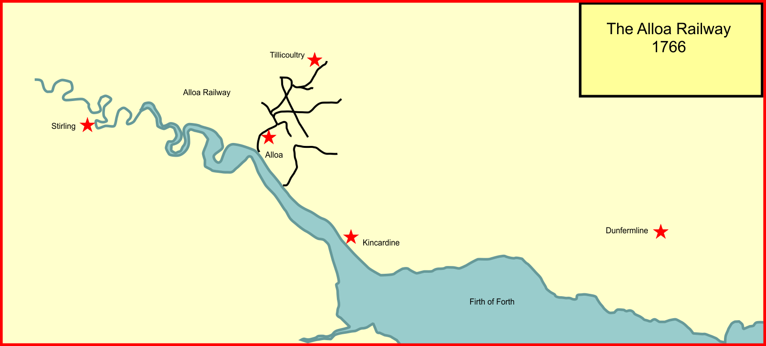 System mapo of the Alloa Railway, Scotland, in the 18th century